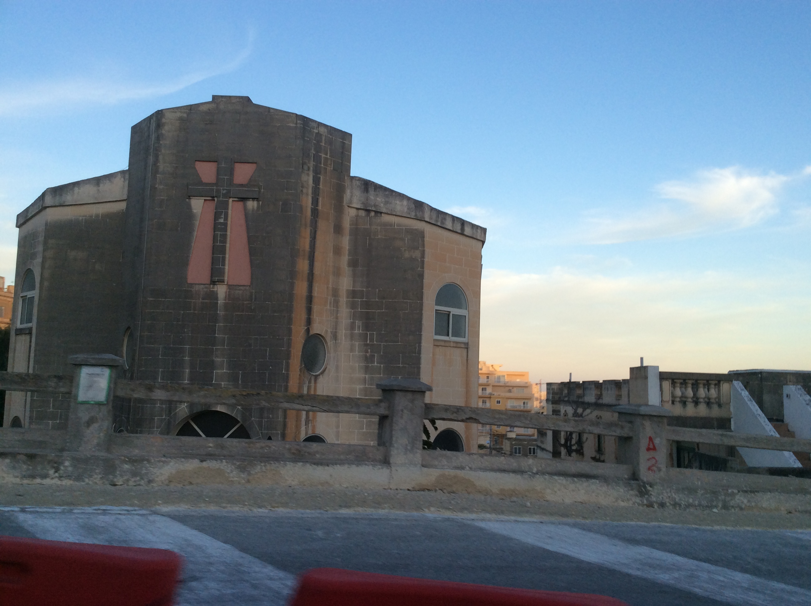 BBC in Gzira